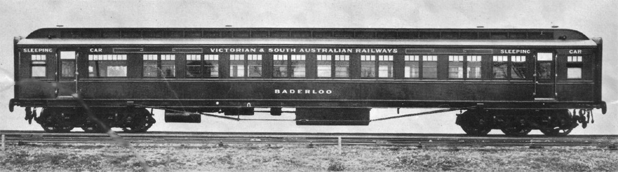 Official Victorian Railways publicity photograph of V&SAR E type sleeping car Baderloo, c. 1910 - Zzrbiker (talk) 12:13, 9 September 2008 (UTC)